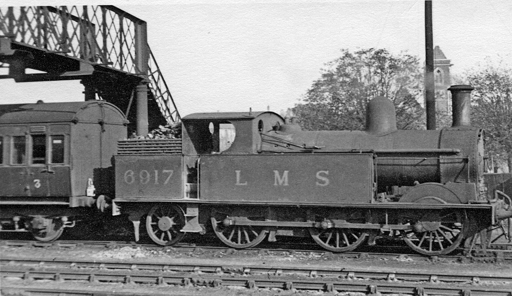 Leighton Buzzard Station and branch train to Dunstable. View eastward; London & North Western West Coast Main Line. The train, headed by LNWR 5'6" 2P 0-6-2T No. 6917 (still in LMS livery), will run eastward to Dunstable, where it will connect with the ex-Great Northern branch service from Welwyn Garden City via Luton.